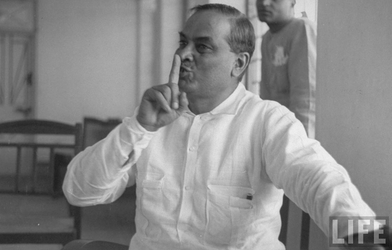 Dr. Bidhan Chandra Roy